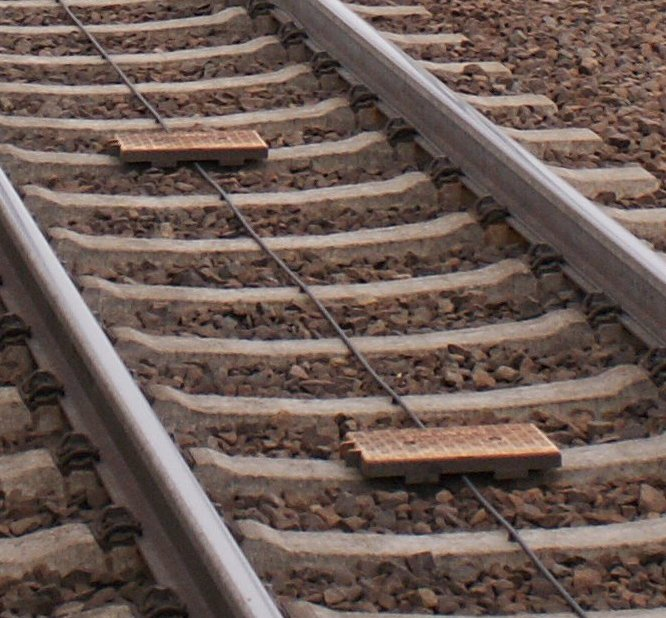 A Eurobalise radio beacon for the ETCS railway signalling system